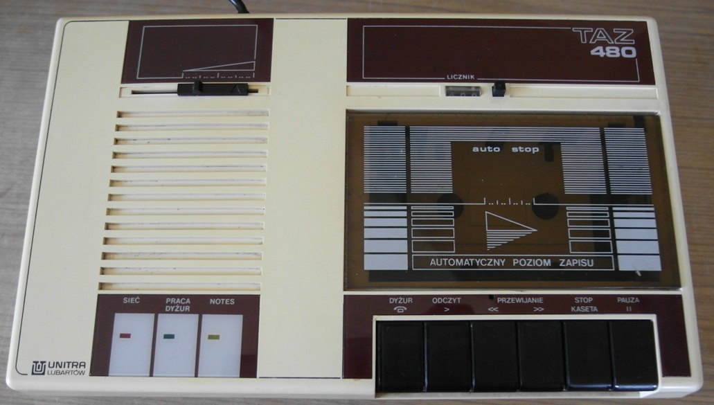 Automatic answering machine TAZ 480 manufactured in Poland by ZWM "Unitra-Lubartów"